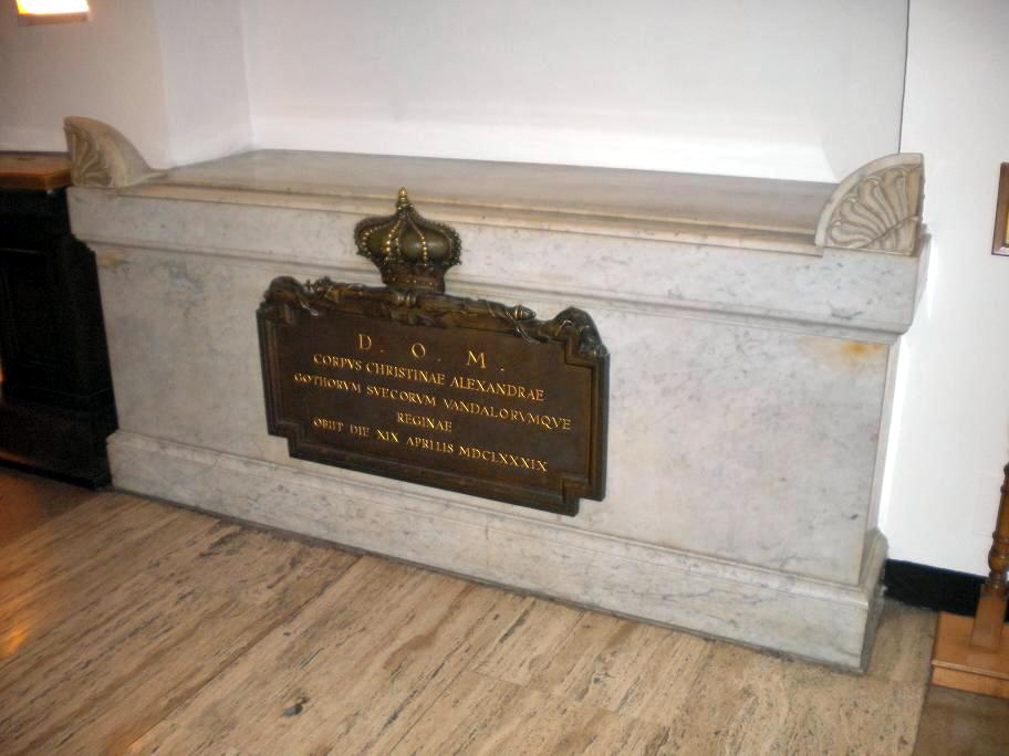 Grave of Queen Christina of Sweden in the extensive papal crypt area of St. Peter’s Basilica, as released by image creator Ristesson;Place: Vatican City, Vatican State